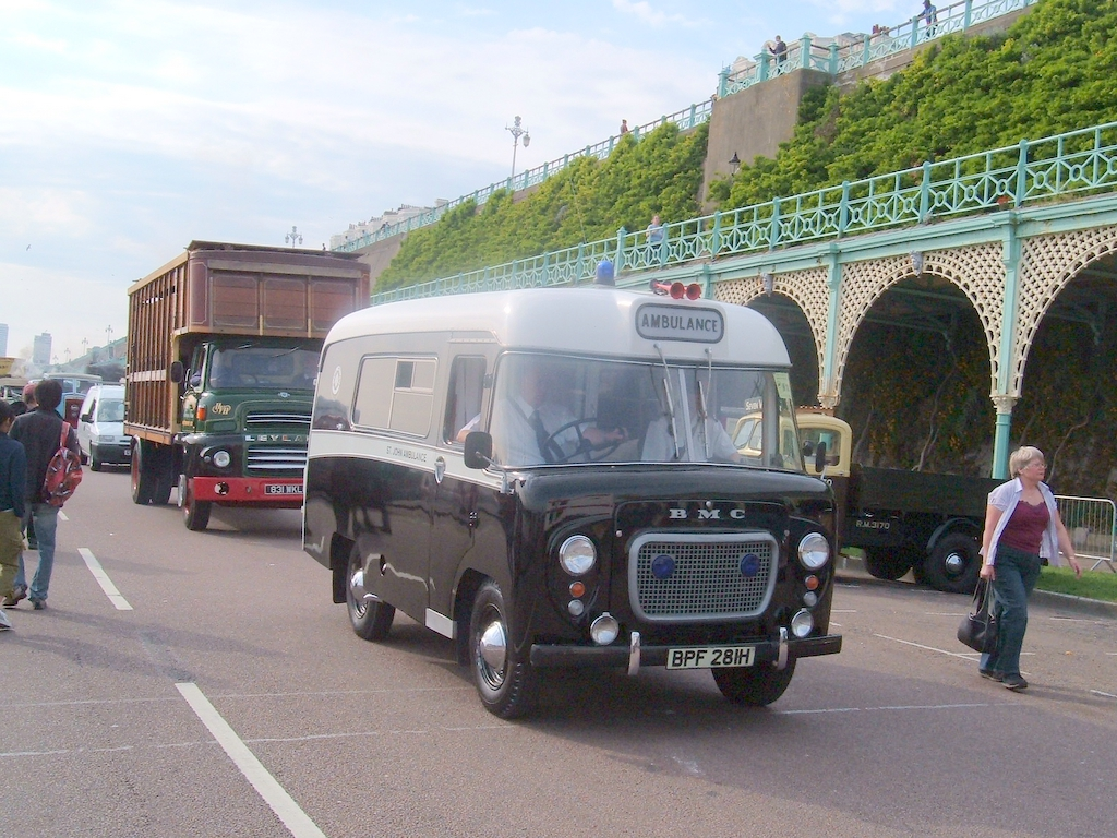 Most of these old lorry manufacturers where absorbed by BMC . The British Motor Corporation. This huge conglomerate became the but of many jokes because of the terrible labour relations and strikes there.